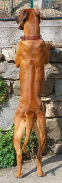 The characteristic ridgeback of Shaka Zulu, Rhodesian Ridgeback